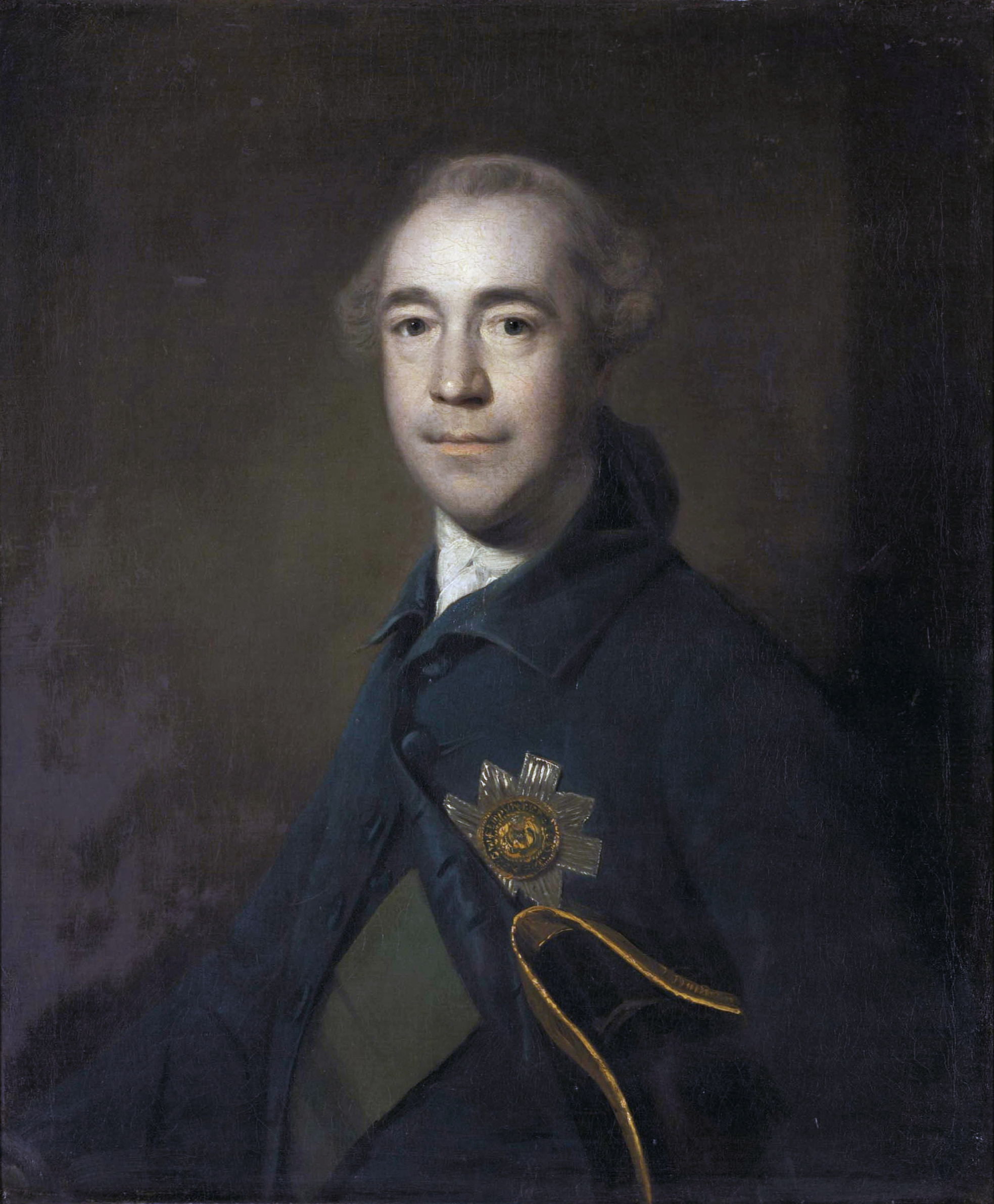 Charles Colyear, 2nd Earl of Portmore (1700-1785) oil on canvas 76.2 x 63.8 cm.